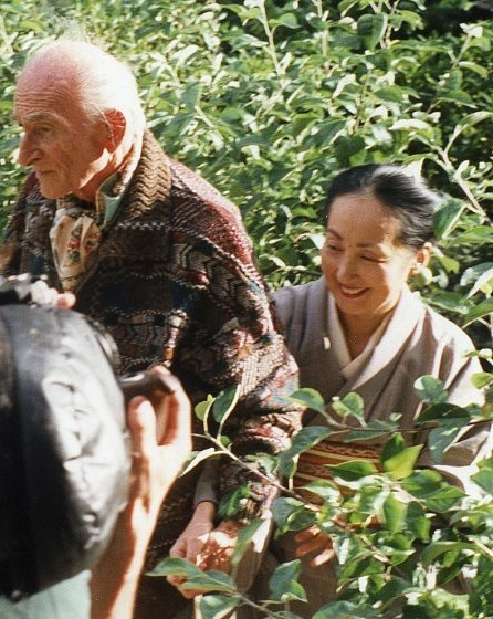 My photo of Balthus with his wife Setsuko being filmed in their garden at the Grand Chalet in Switzerland.